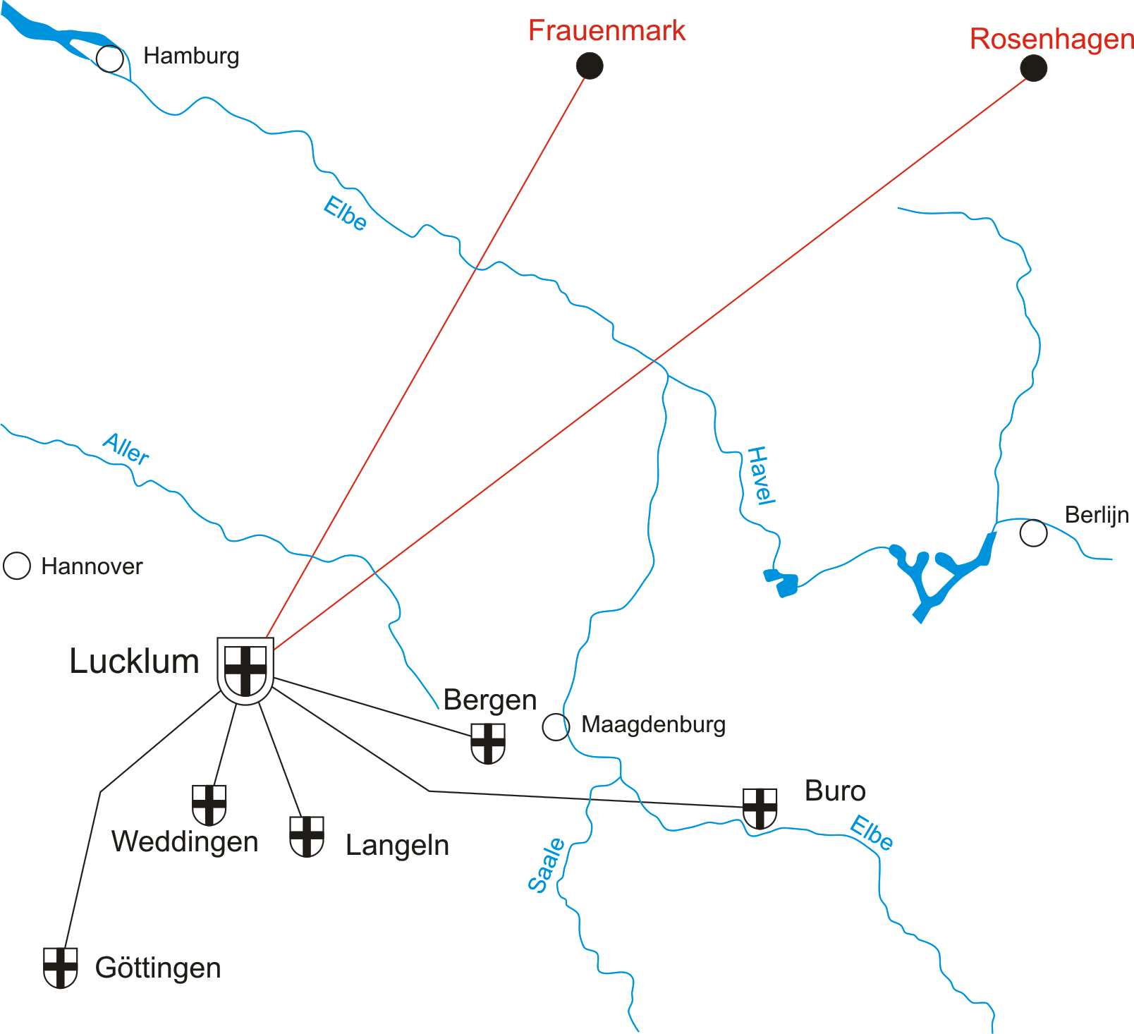 map of the bailiwick of Saxonia of the Teutonic Order (1788)